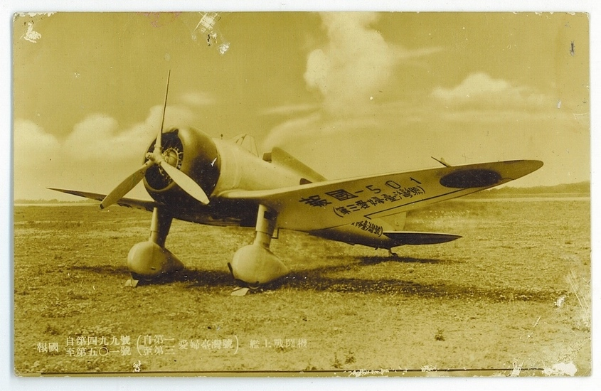 Bomber aircraft in Taiwan under Japanese ruling period.